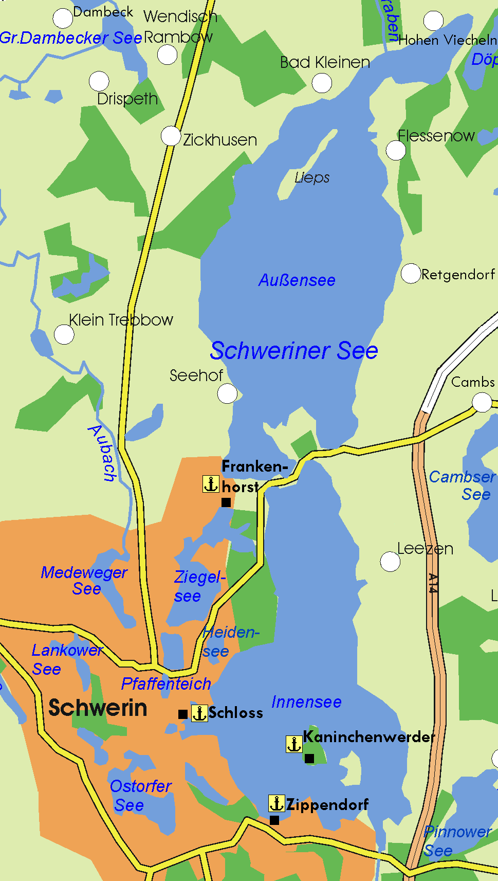 pier and put ins of the "Weiße Flotte" in Schwerin, Germany